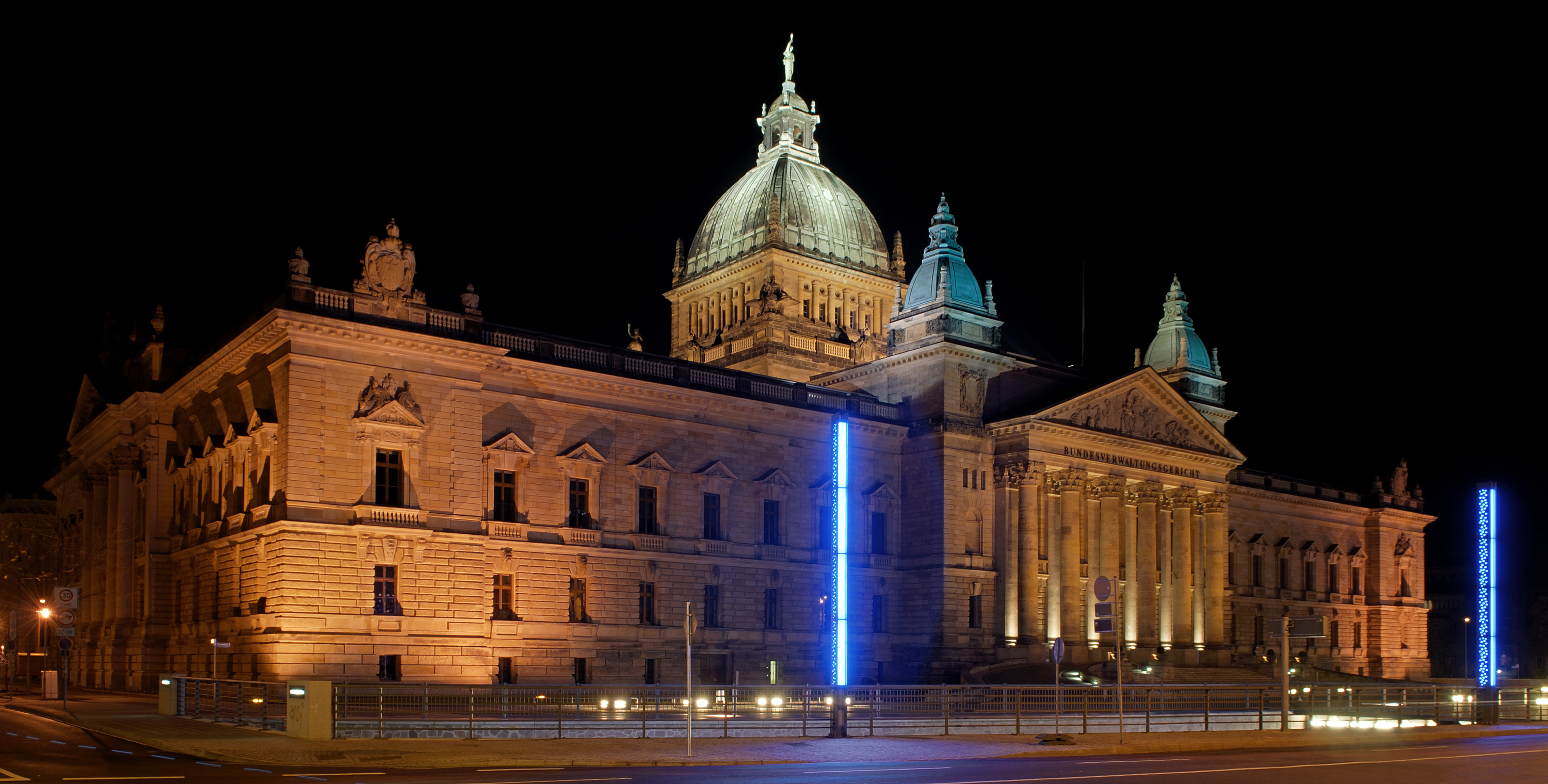 This image shows the Federal Administrative Court in Leipzig, Germany at night. It has been made of nine differently exposured takes that were combined using HDR techniques.